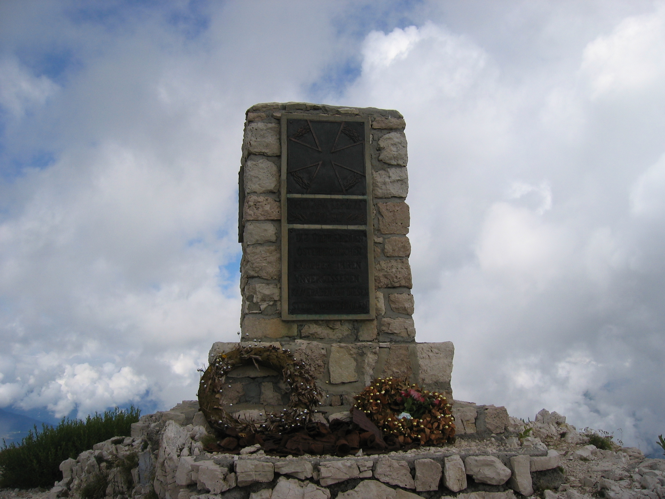 Austrian monument, Mount Ortigara (Italy)